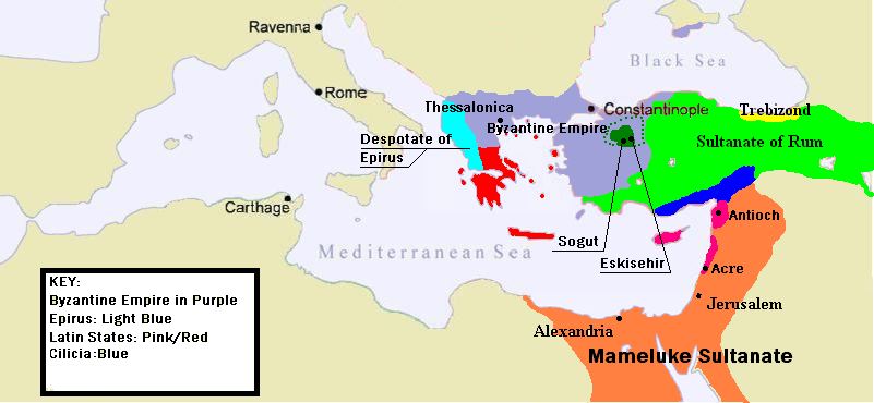 Middle East c. 1263. KEY: Dark Green: Ottoman domain by 1300's, dotted line indicates conquests up to 1326 Purple: Byzantine Empire (successor of Nicaean Empire) Light Green: Turk lands, nominal vassals of Sultanate of Rum Blue: Armenian Kingdom of Cilicia Red/Pink Latin states